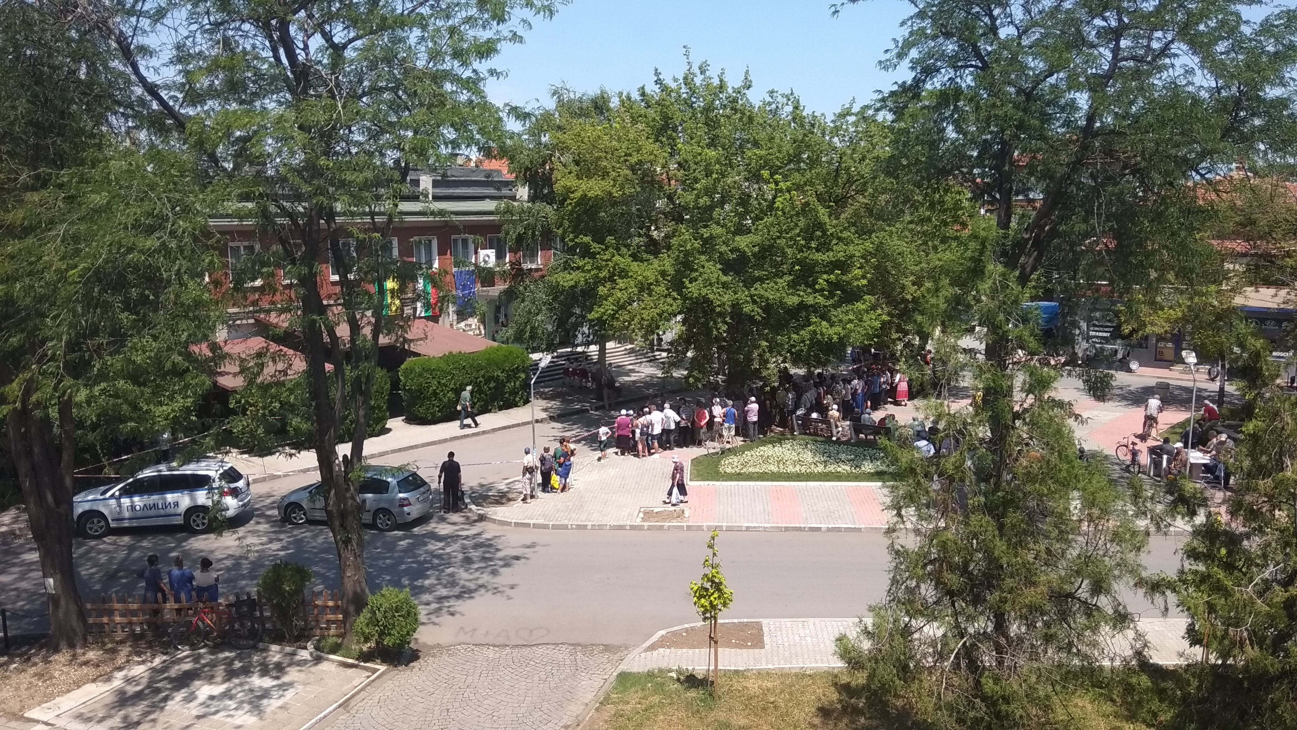 Type: Community Center Location: Yambol, Bulgaria Address: 8601, sq. "Strashimir Krinchev" 3 Community center "Probuda" is registerd as No 1178 in Ministry of Culture of Republic of Bulgaria